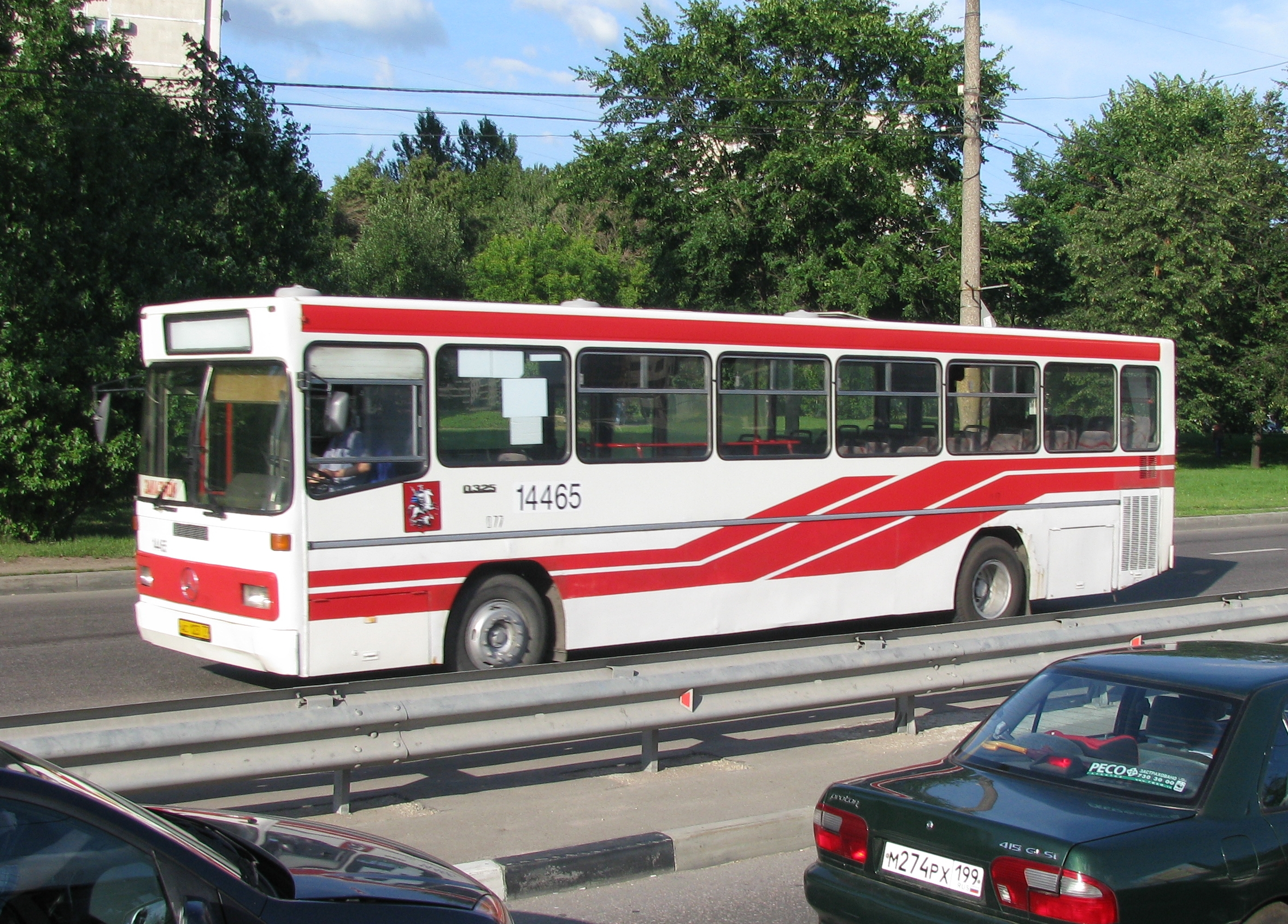 Mercedes-Benz O 325 in Moscow